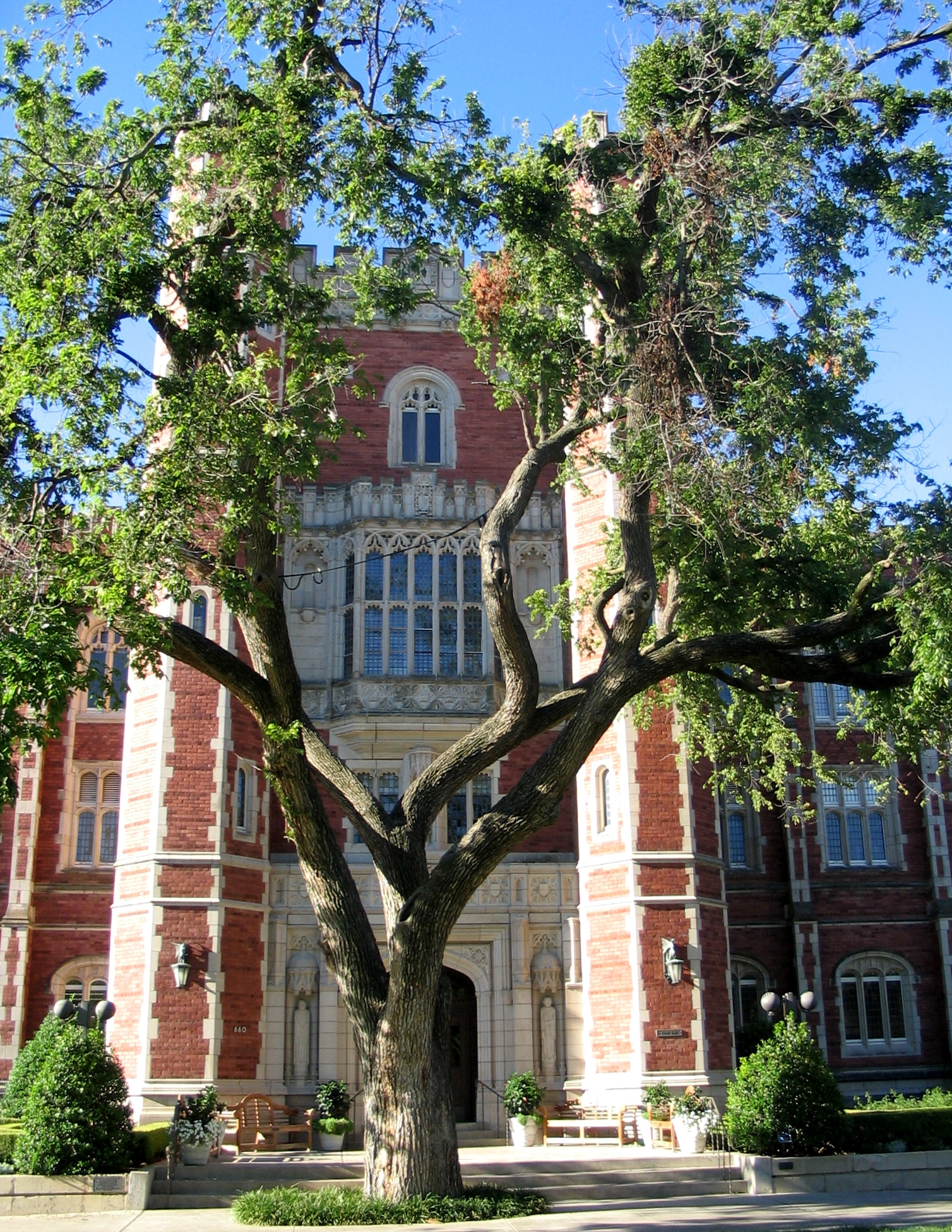 A photo of Evans Hall, the main administrative building, on the University of Oklahoma campus.